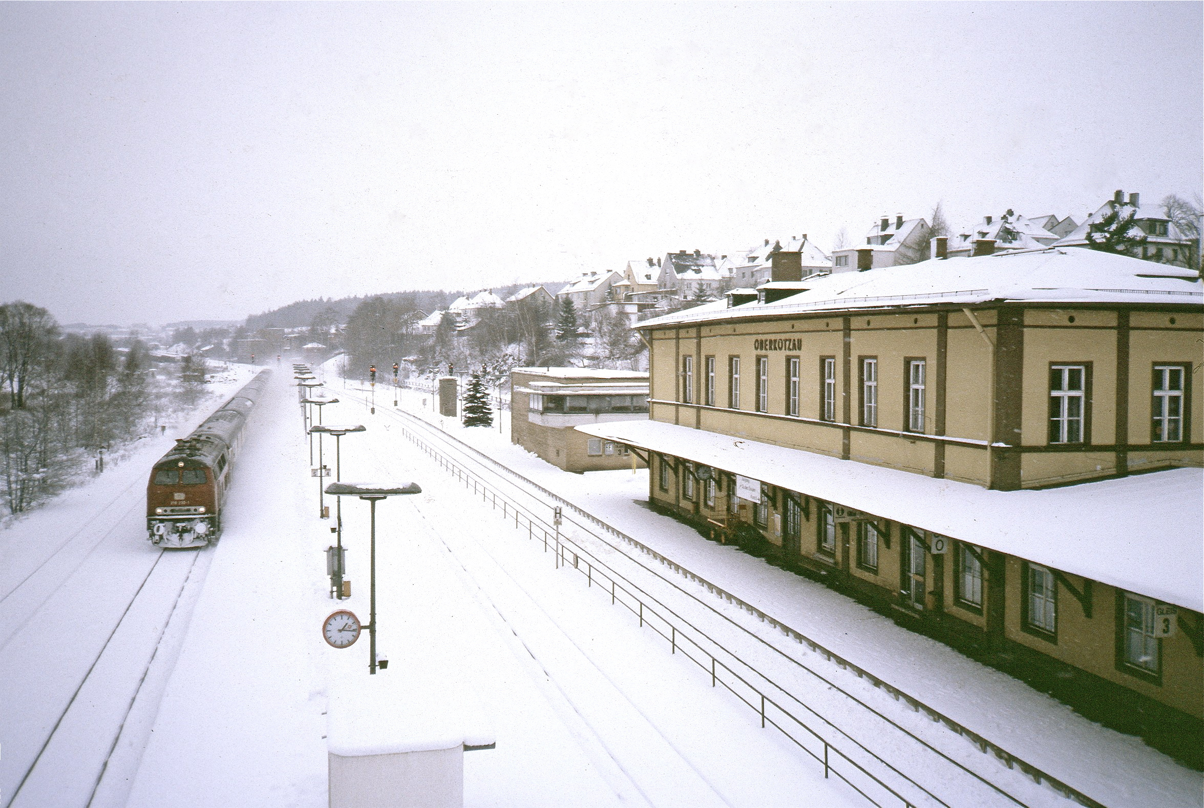 Oberkotzau railway station